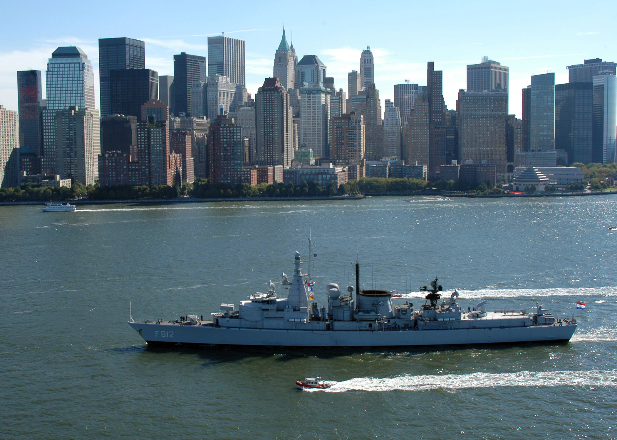 New York Harbor, N.Y. (Oct. 13, 2004) — The Royal Netherlands Navy frigate HNLMS Jacob Van Heemskerck (F812) sails past Manhattan while taking part in a "Parade of Ships." Heemskerck is currently taking part in NATO Standing Naval Force Atlantic (SNFL) 2004 exercises. SNFL is a permanent peacetime multinational naval squadron composed of destroyers and frigates from the navies of various NATO nations. The exercises are designed to test readiness, improve communication and diplomacy between member countries and promote interoperability between navies.